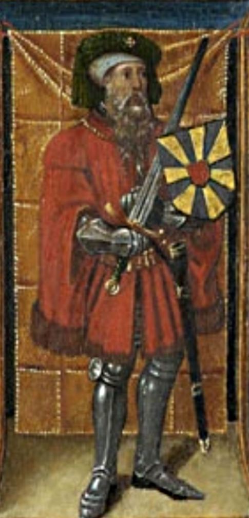 Baldwin IV, Count of Flanders. The shield he holds is blazoned: Gyronny of fourteen pieces or and azure, an escutcheon gules.